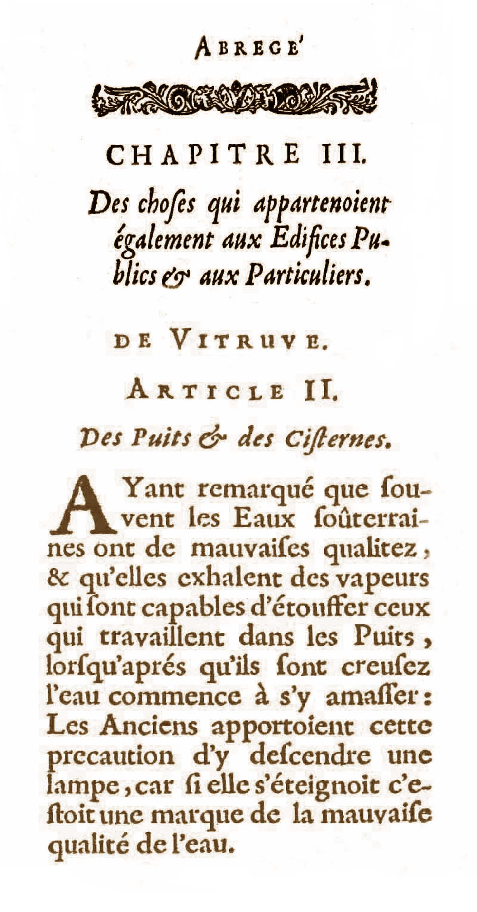 Vitruve on the work at the bottom of wells.